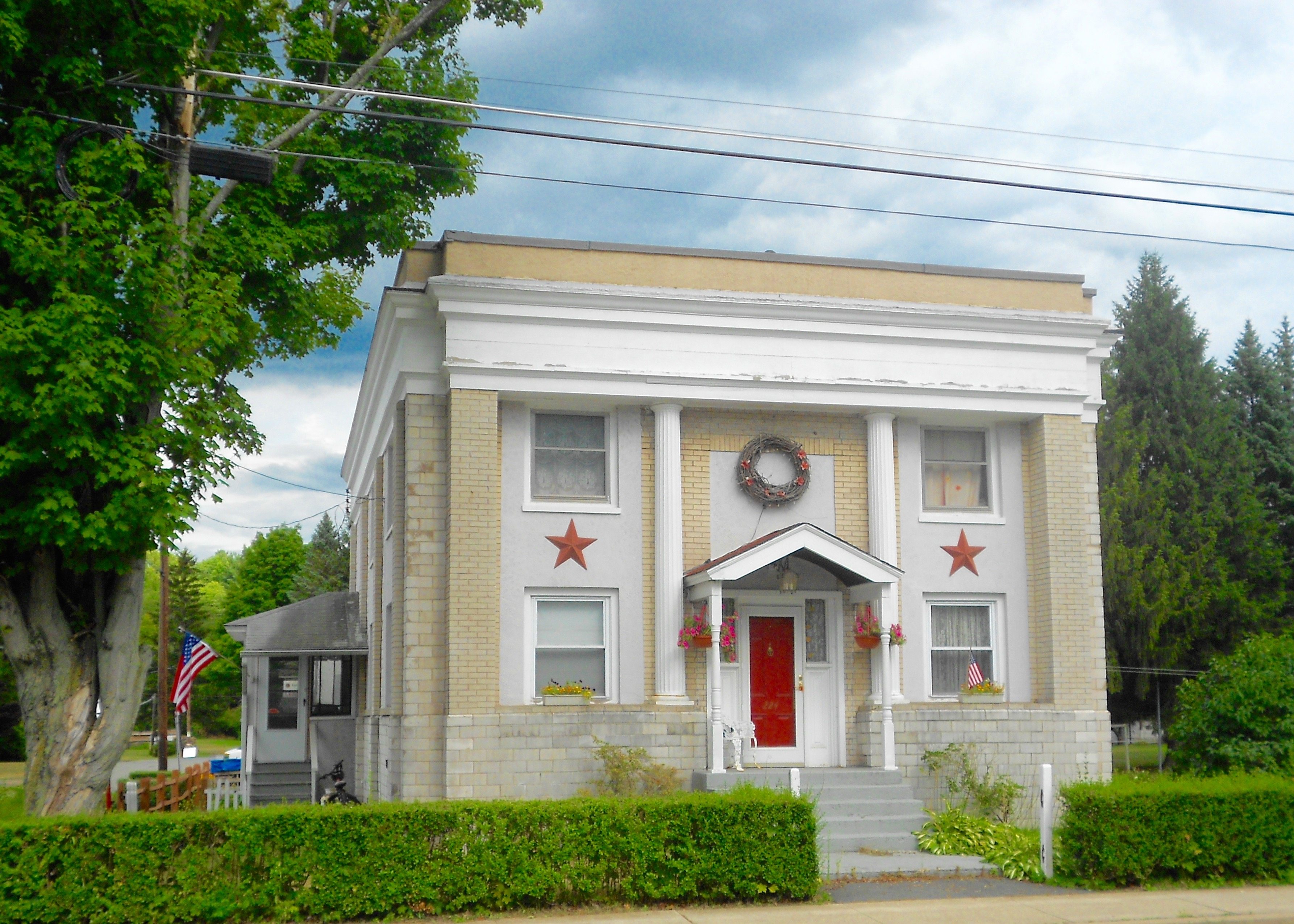 House, likely a former bank or government office, in Waymart, Pennsylvania